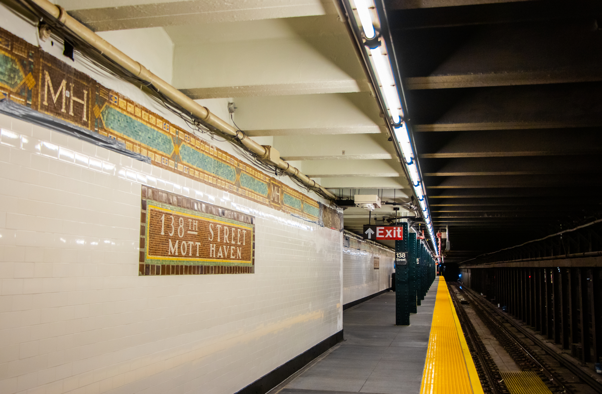 Renovated northbound IRT East 138th Street - Mott Haven (Grand Concourse) Station in Mott Haven, The Bronx